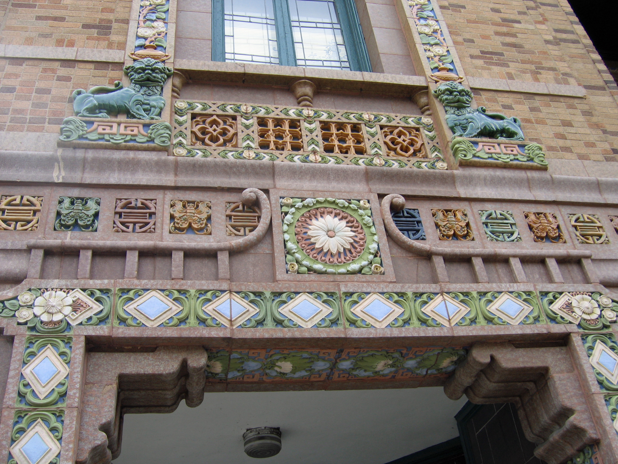 Chinatown